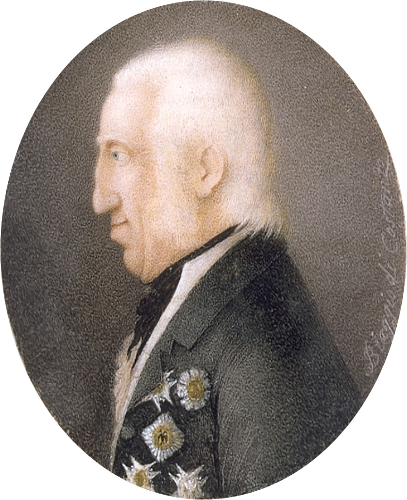 Ferdinand IV (1751-1825), King of Naples and Sicily